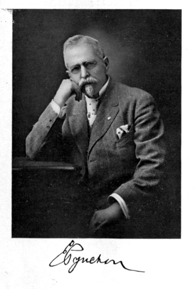 Edwin Pynchon, M.D. (1853-1914)